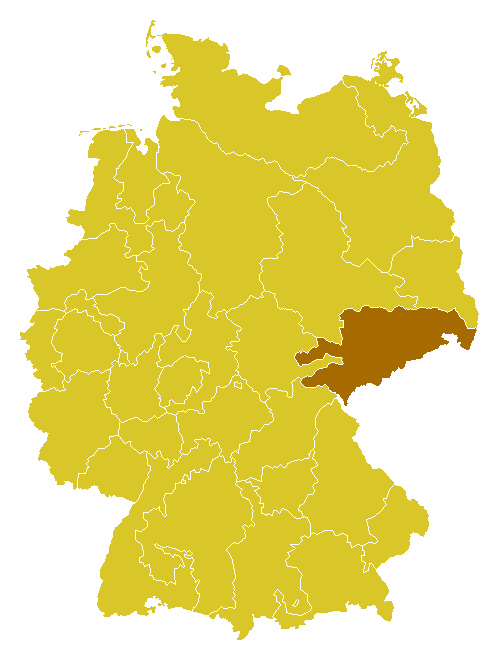 site of dioecese Dresden-Meißen